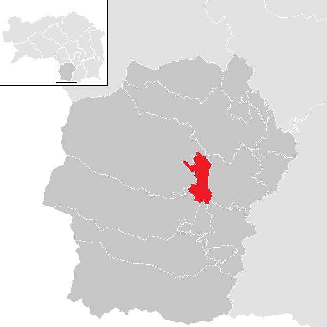 District Deutschlandsberg, Styria, Austria